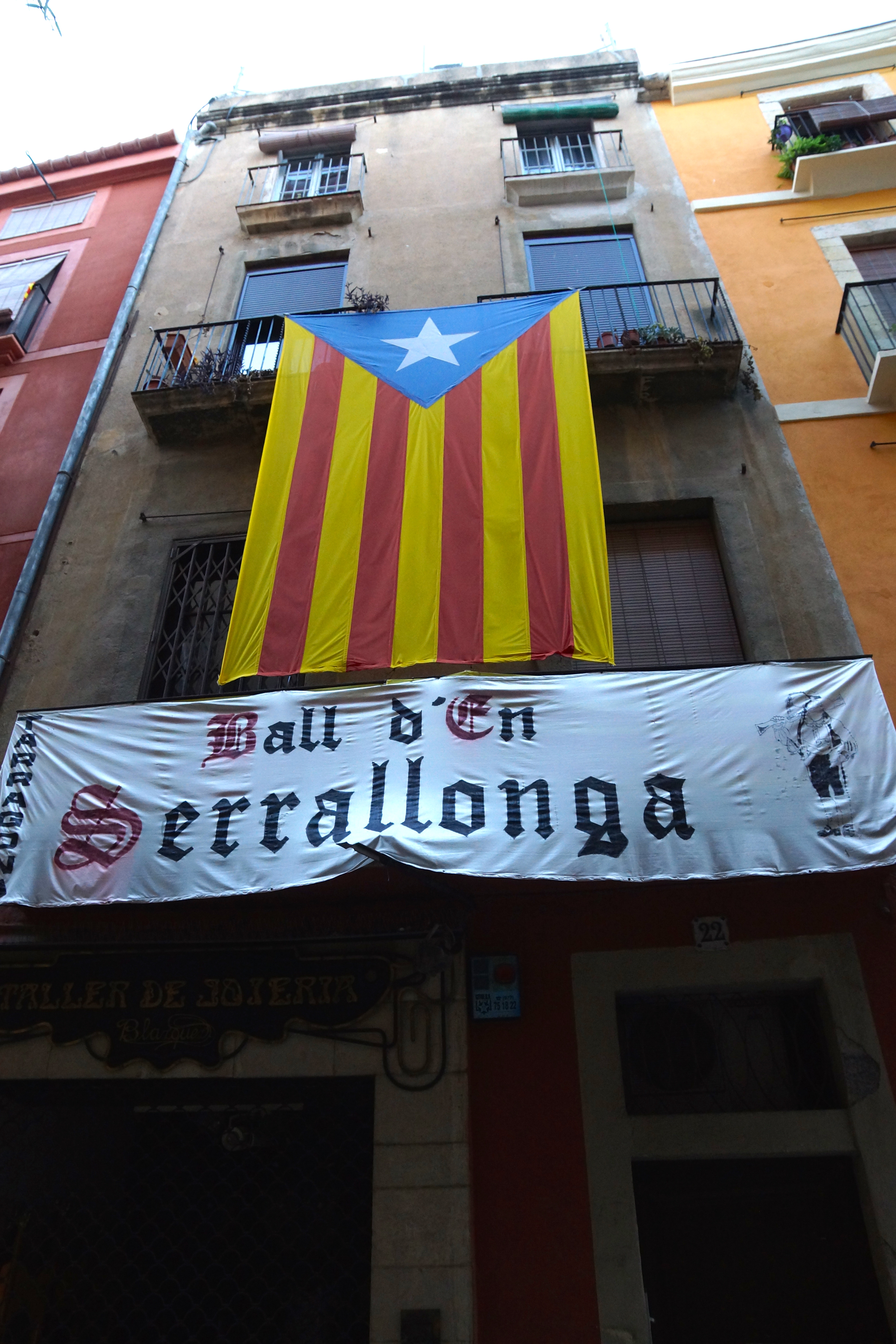 Tarragona, Catalonia: Ball d'en Serrallonga